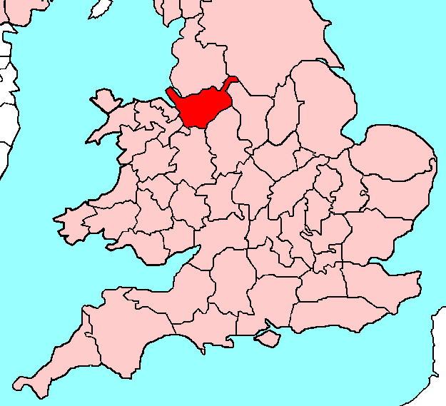 Cheshire